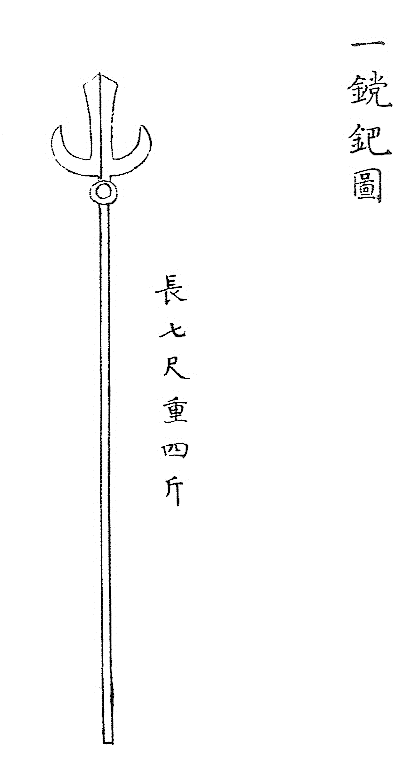 Chinese Ranseur